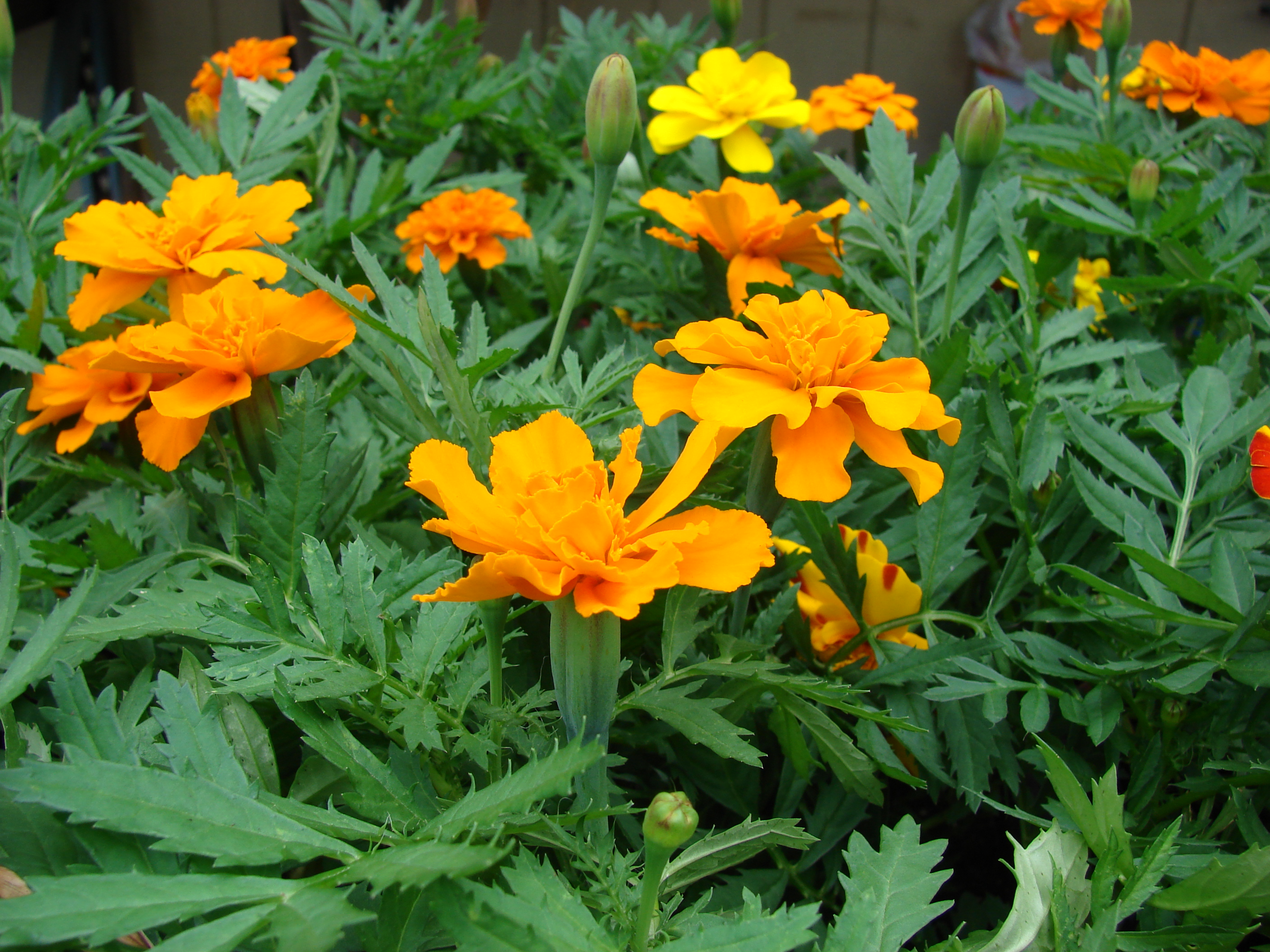 Tagetes erecta (flowers and leaves). Location: Maui, Kula Ace Hardware and Nursery